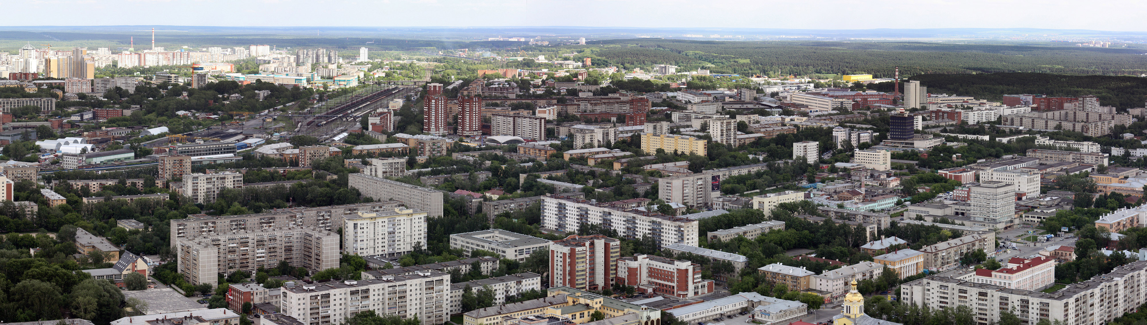 Ekaterinburg. Railway Station Shartash